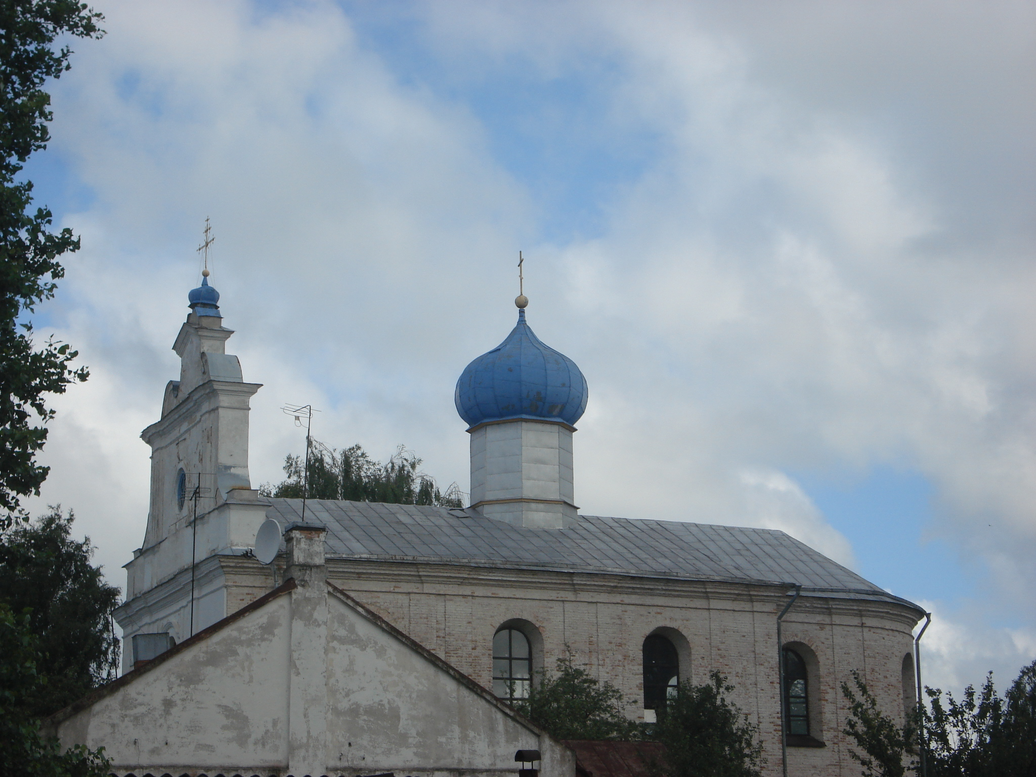 Church of St. Barbara, Pinsk